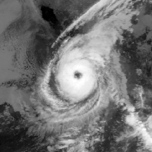 Hurricane Paul 1982